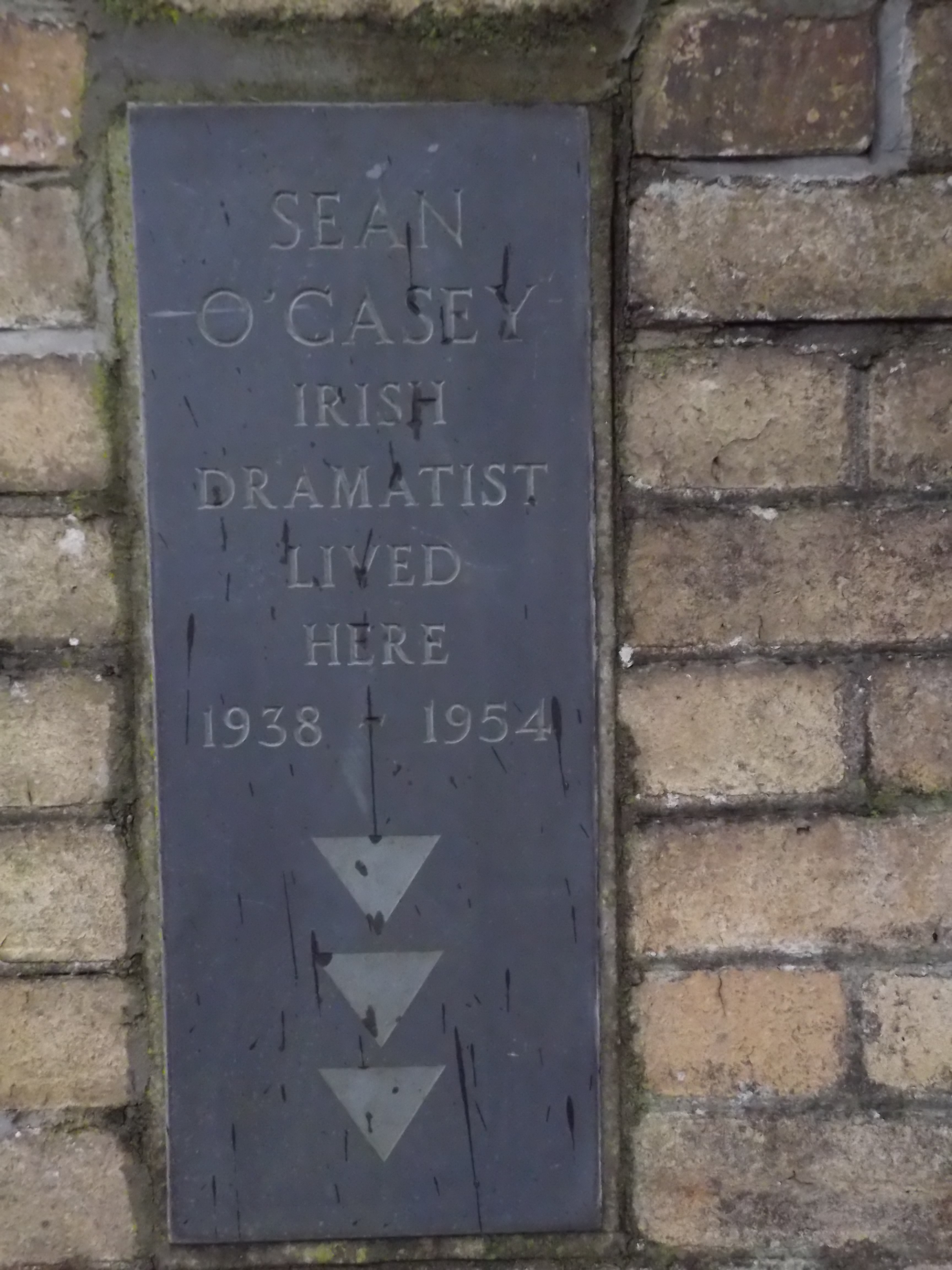 A plaque commemorating Sean O'Casey's residence in Totnes